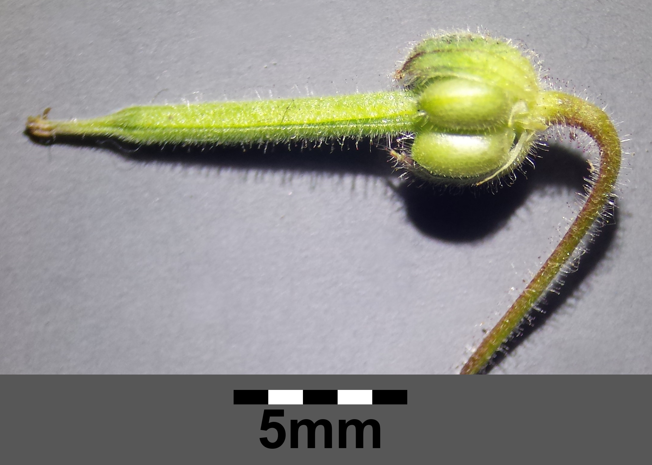 Fruit Taxonym: Geranium rotundifolium ss Fischer et al. EfÖLS 2008 ISBN 978-3-85474-187-9 Location: Floridsdorf/Leopoldau rail station, Vienna-Floridsdorf - ca. 160 m a.s.l. Habitat: ballast